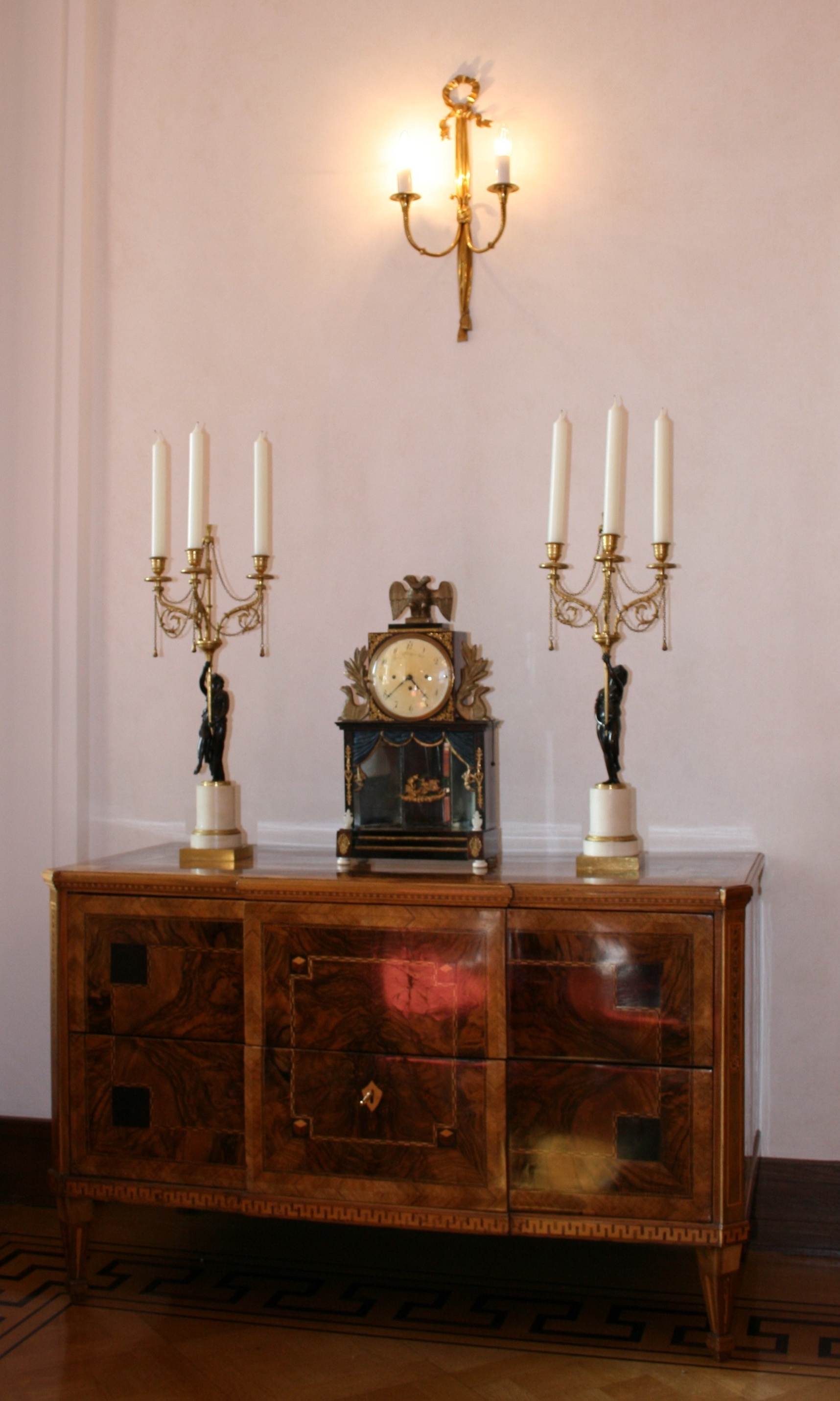 Villa Hammerschmidt, second residence of german president in Bonn, Germany